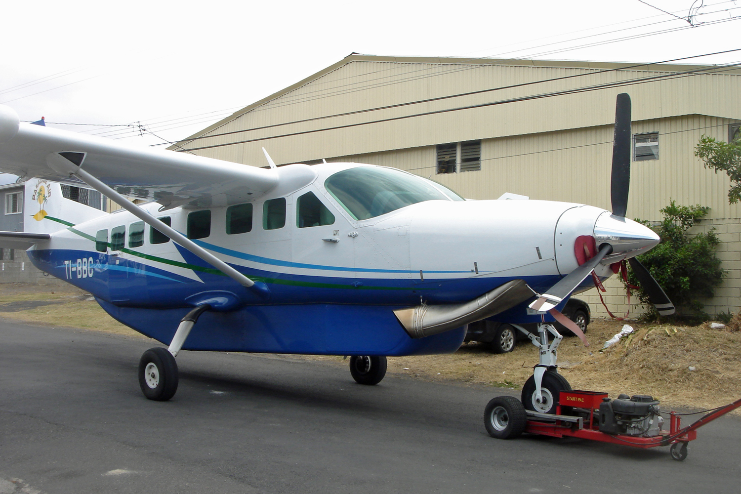 Paradise Air charter aircraft at the Tobias Bolaños International Airport, San Jose, Costa Rica